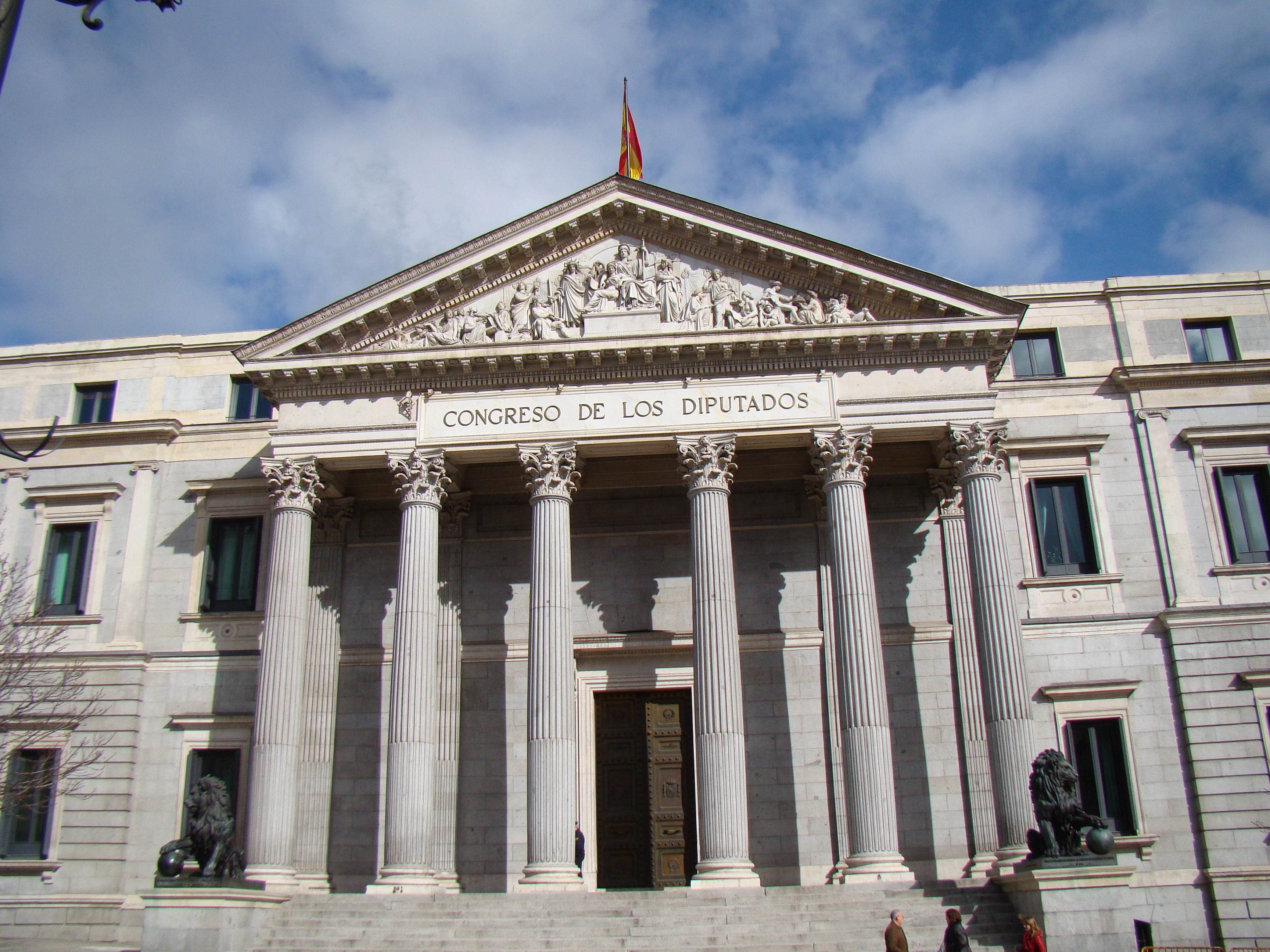 01S. Congress of Deputies (Inventory)Native nameCongreso de los Diputados de EspañaParent institutionCortes Generales LocationMadrid, (Spain)Coordinates40° 24′ 57″ N, 3° 41′ 48″ W Established1977Web page control : Q539149 VIAF: 134718539 ISNI: 0000 0001 1956 4410 GND: 1087366097 SUDOC: 03258167X BNF: 121729241 institution QS:P195,Q539149 Palacio de las Cortes (Inventory)Native namePalacio de las Cortes de MadridLocationMadrid, Spain.Coordinates40° 25′ 00″ N, 3° 41′ 59″ W Established1843–1850Web page control : Q9054619 VIAF: 173679168 ULAN: 500302409 LCCN: sh2013000847 GND: 4228303-6 BNE: XX189659 WorldCat institution QS:P195,Q9054619